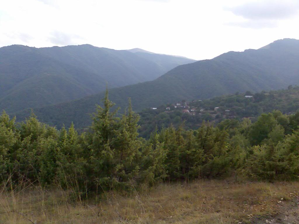 Village of Inche, Poreche region, Republic Macedonia